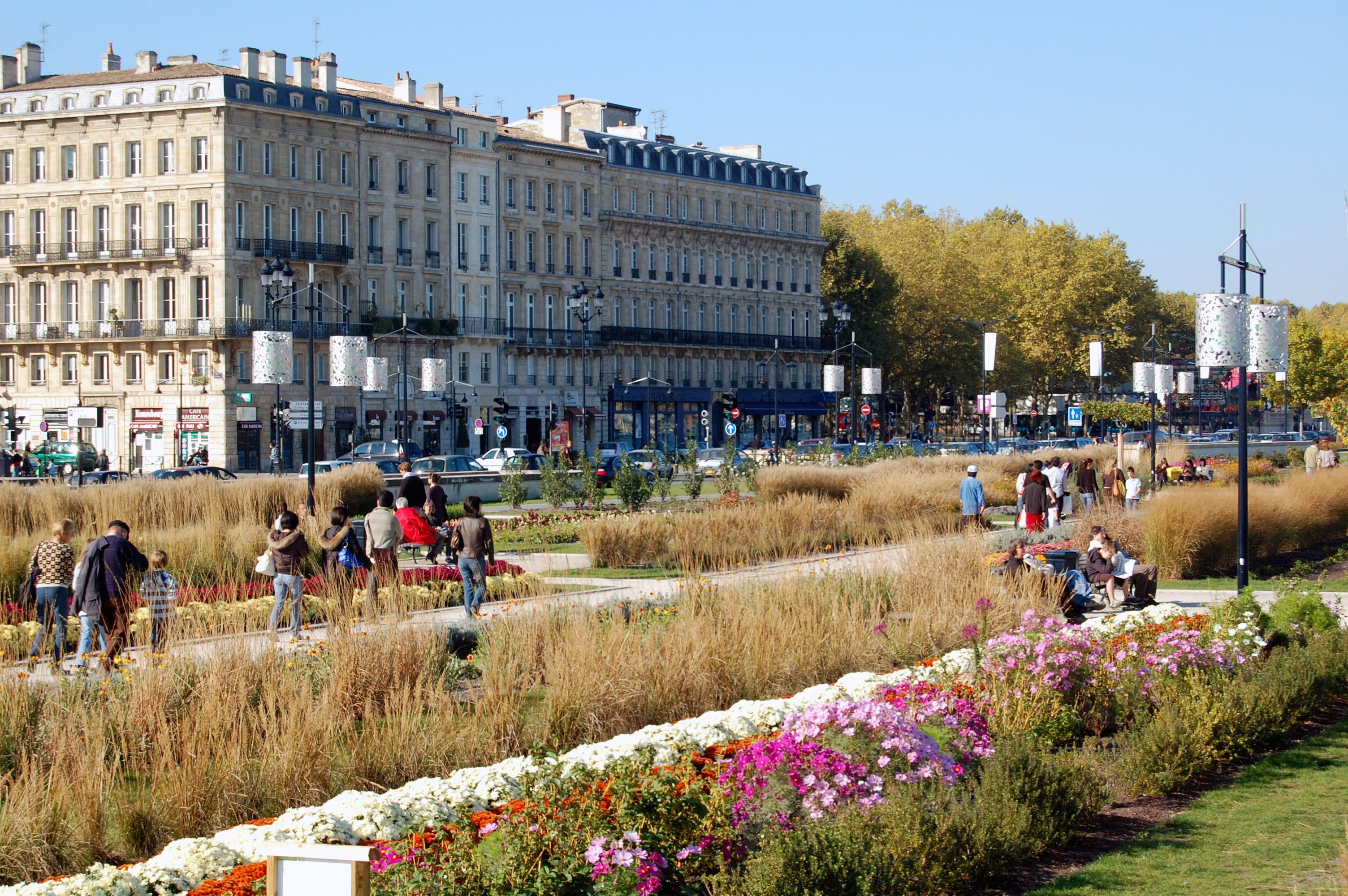 Garden "Jardin des Lumières" , Bordeaux, France